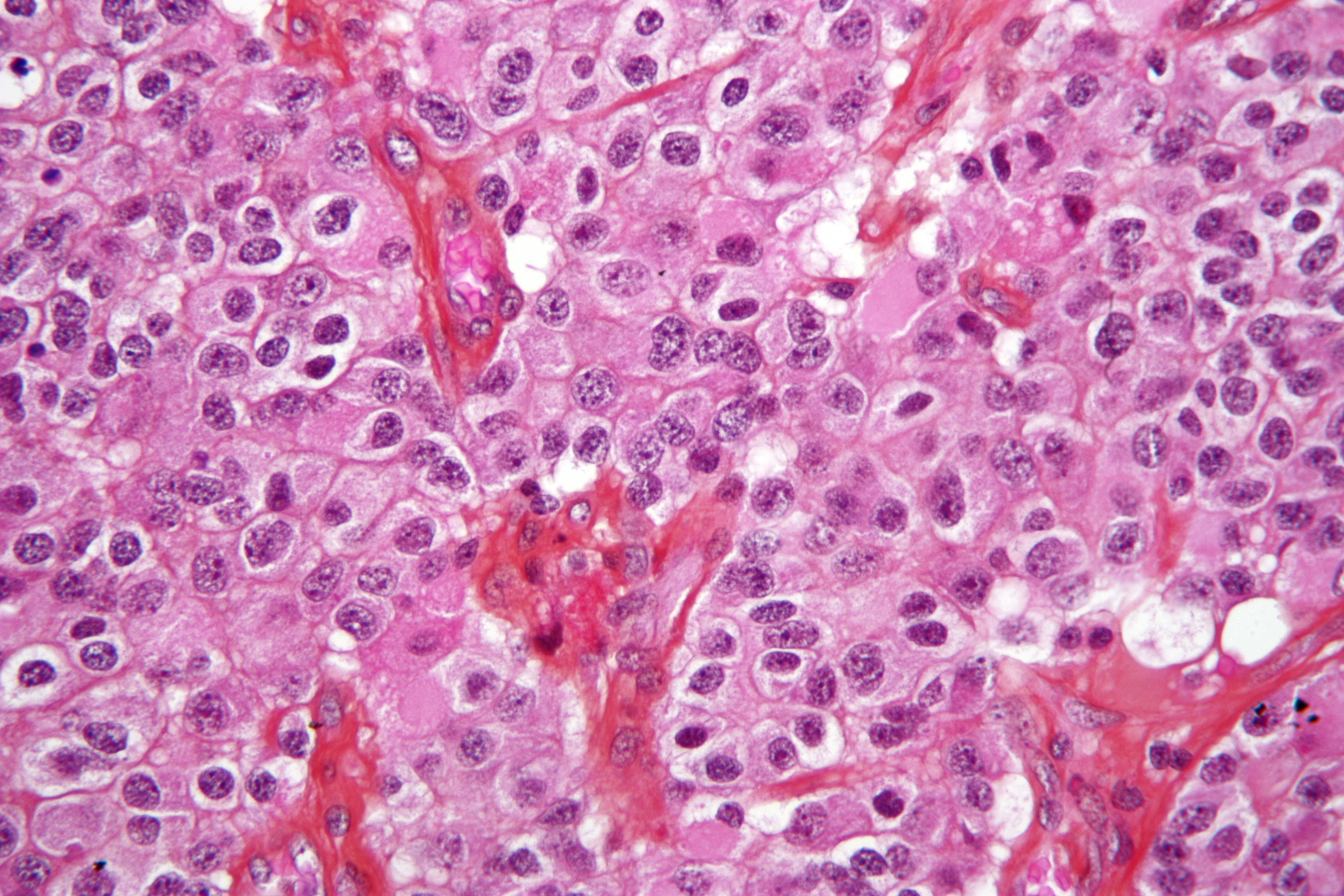 High magnification micrograph of an oligodendroglioma. H&E stain. Description: Highly cellular lesion composed of: cells resembling fried eggs with: distinct cell borders moderate-to-marked nuclear atypia, and a clear cytoplasm. acutely branched capillary sized vessels - "chicken-wire" like appearance. Related images Low mag. High mag.